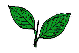 Two Leaves: A Symbol used Indian Election